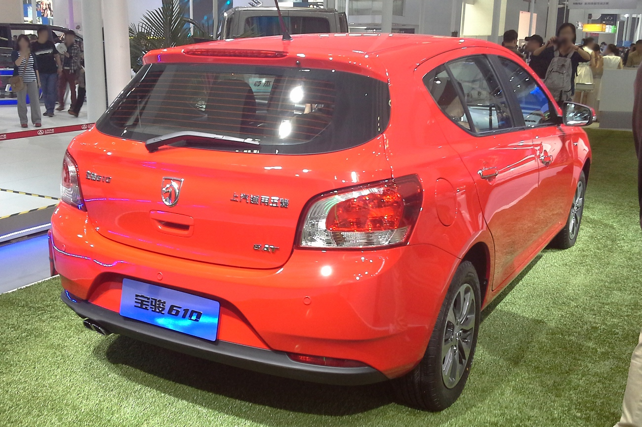 Baojun 610 photographed at the Auto China 2014, Beijing, China.